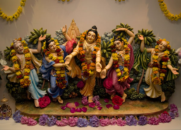 Panca-tattva Altar I took this at Gaura Yoga, Wellington, New Zealand.